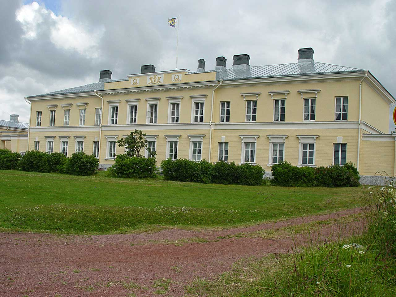 Eckerö Mail and Customs House in Eckerö, Åland, Finland, was designed by architects Carl Ludvig Engel and Carlo Bassi, and completed in 1828.